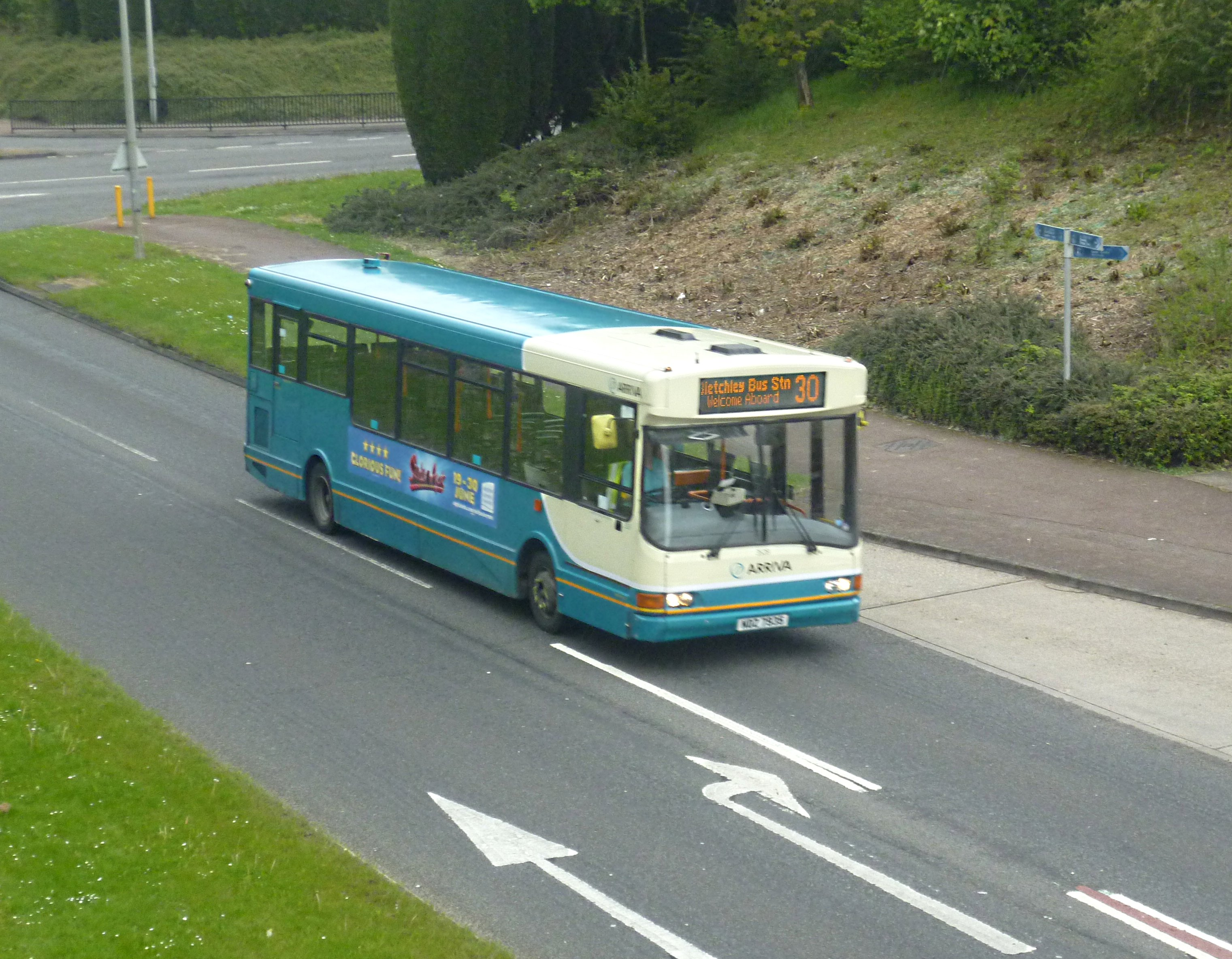 An Arriva the Shires bus on route 30 on Dansteed Way in Milton Keynes, Buckinghamshire